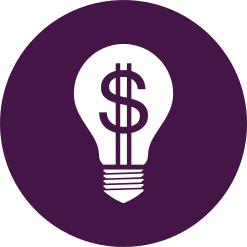 This is the logo for the youth wing of the Liberalistene Party (Capitalist Party) in Norway.